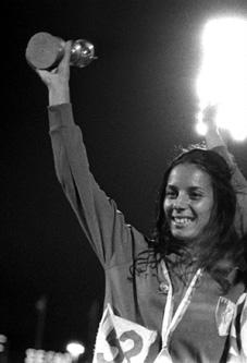 The French athlete Colette Besson wins the 400 meter at the Mexico Olympic Games in 1968.